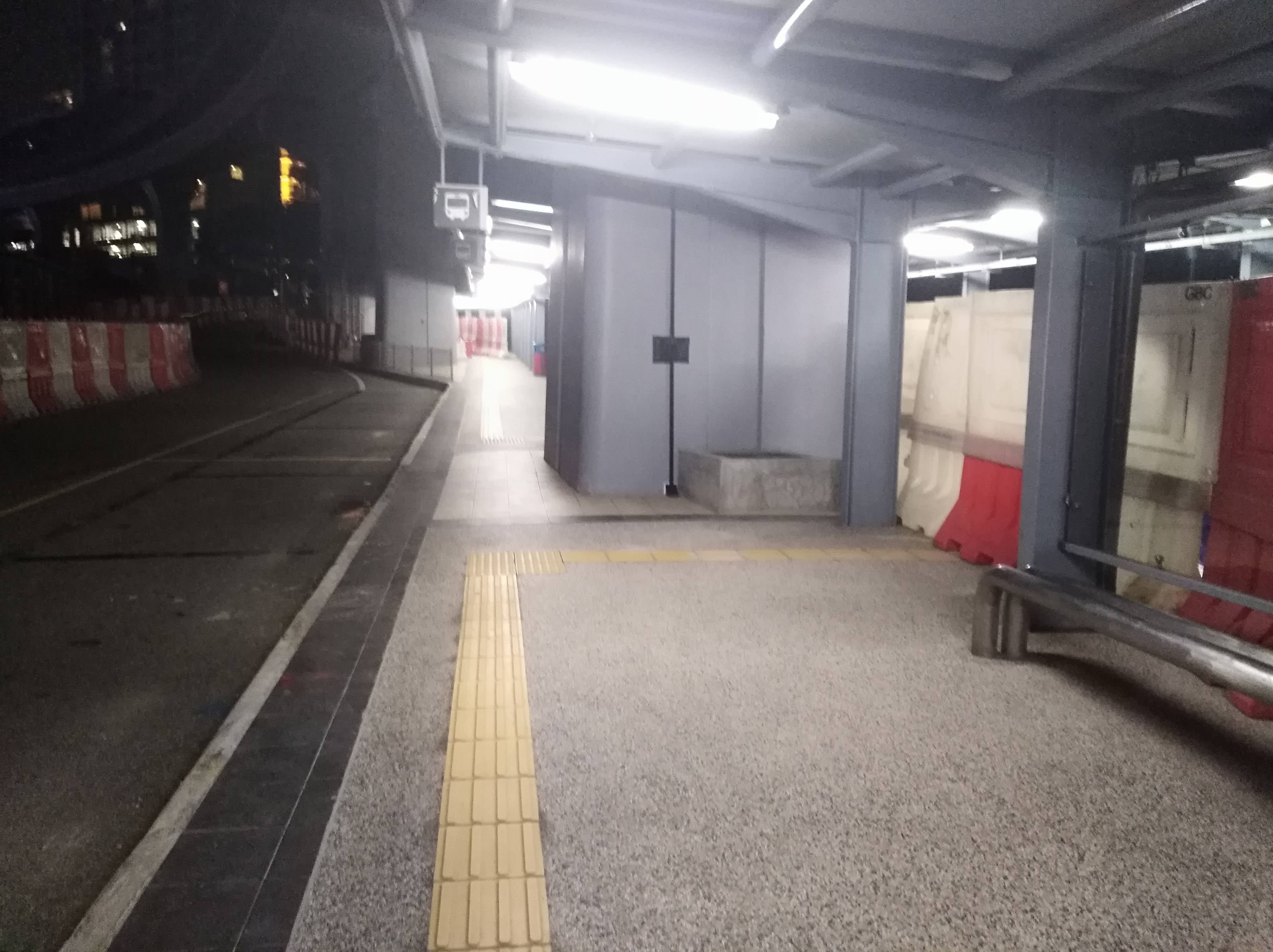 Taken on the way back from Pavilion Mall.